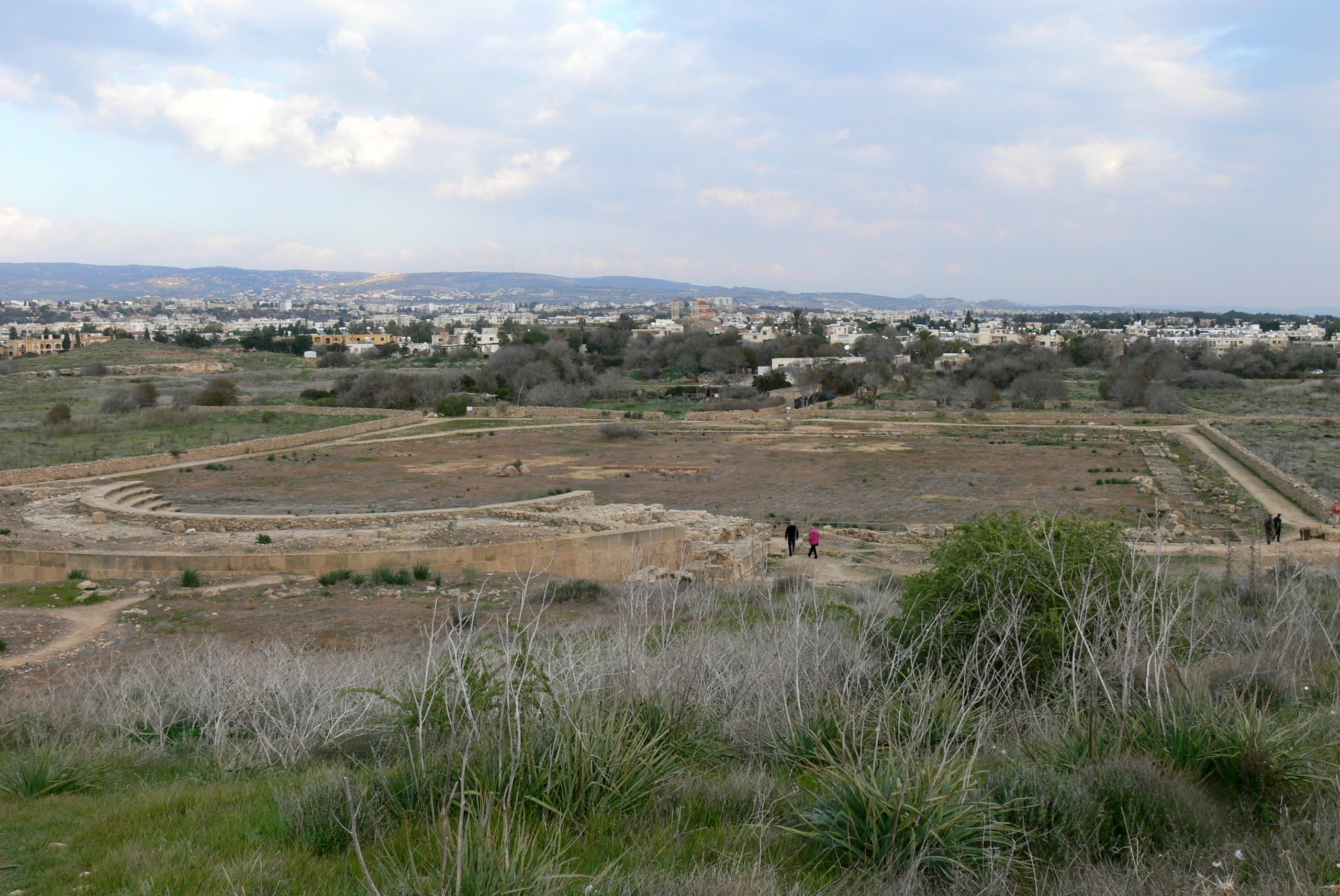 Paphos Archaeological Park. Ancient Roman Forum.